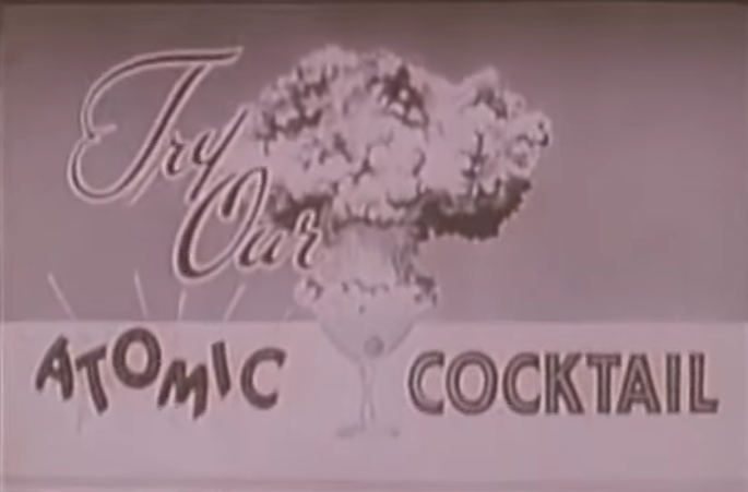 Still photograph from 1950 era US army information film